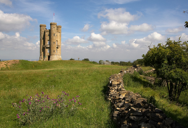 Broadway Tower